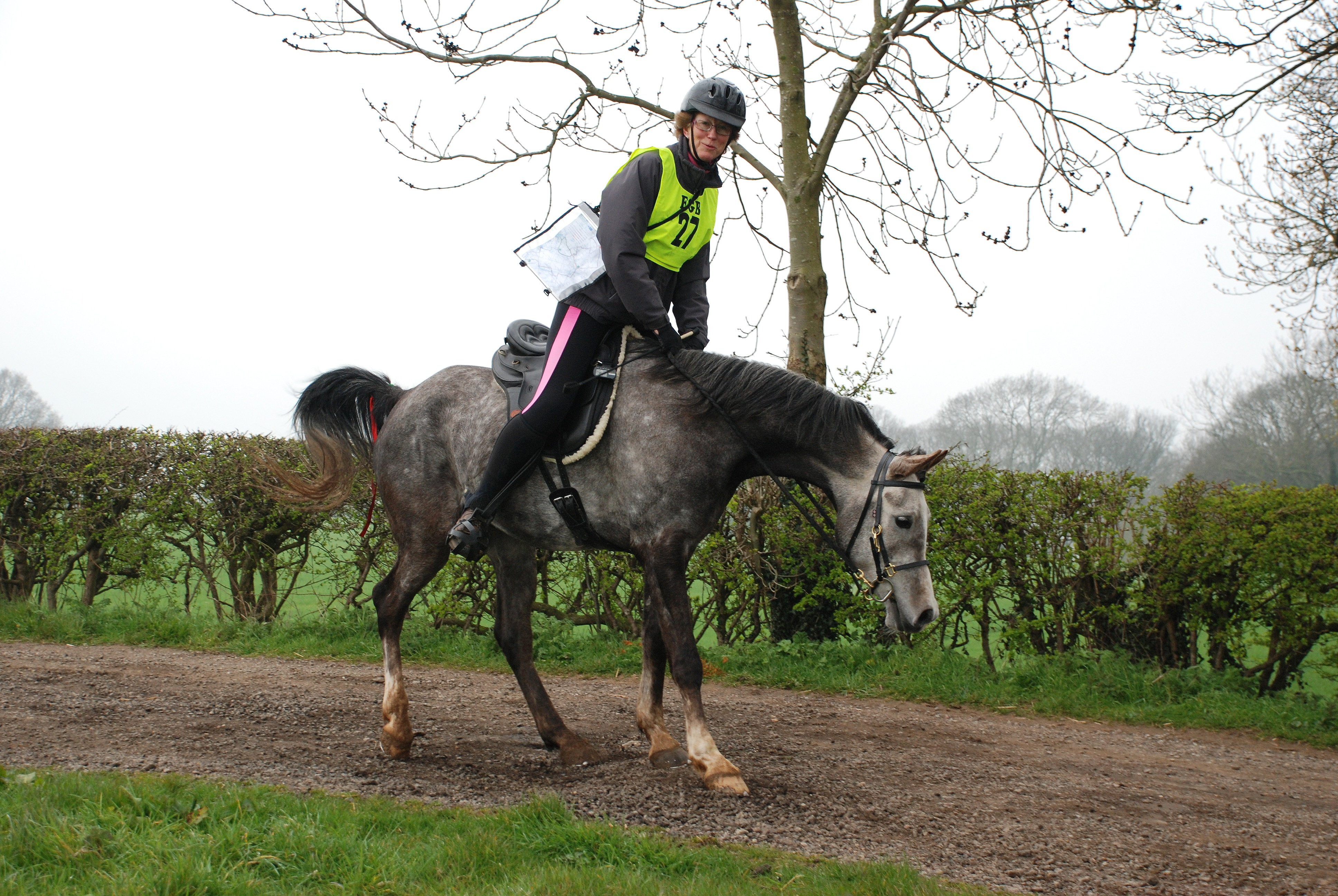 Bashir Shafeeq; appears to have abruptly stopped after seeing something on the ground